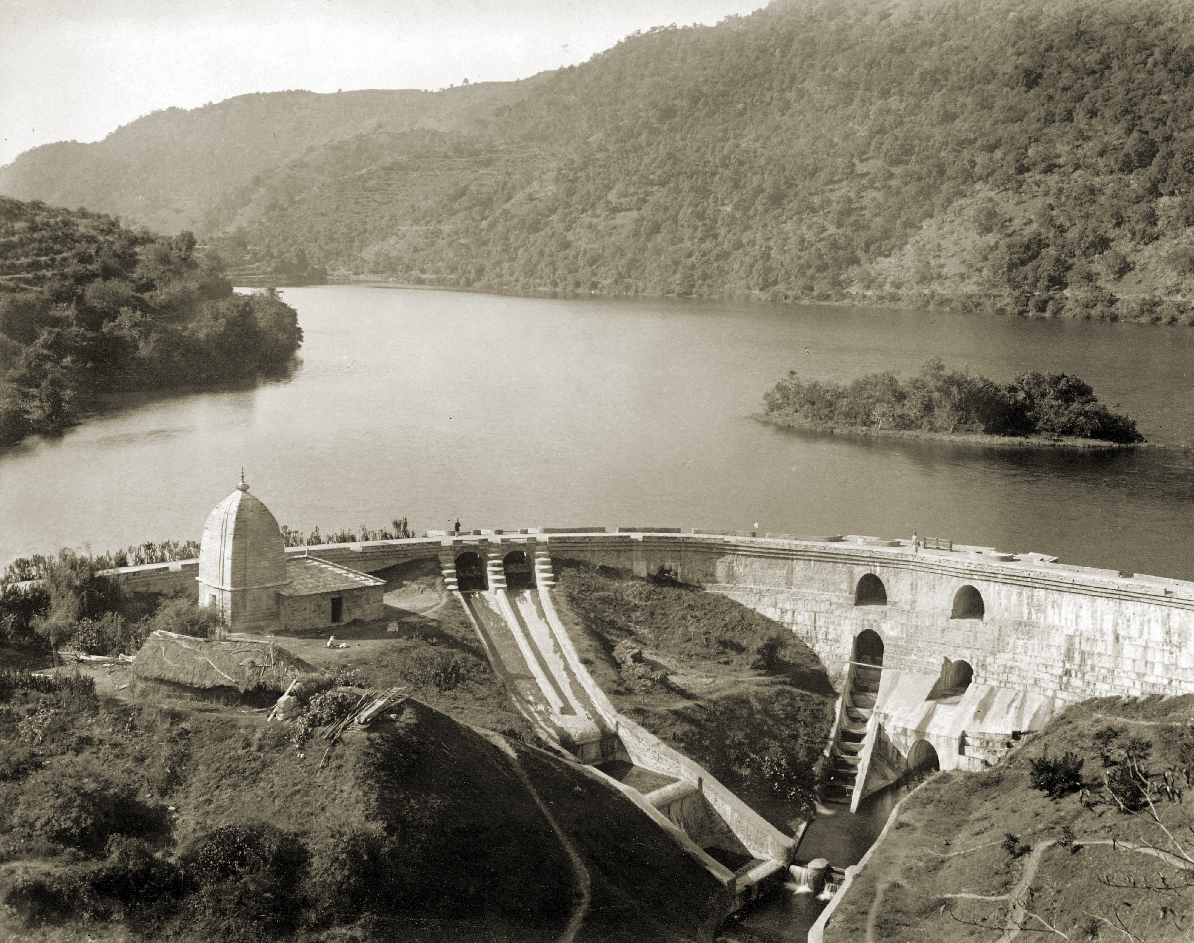 The dam and the Bhim temple, built by Baz Bahadhur Chand, Raja of Kumaon, in the 17th century at Bhimtal, Details 1895.